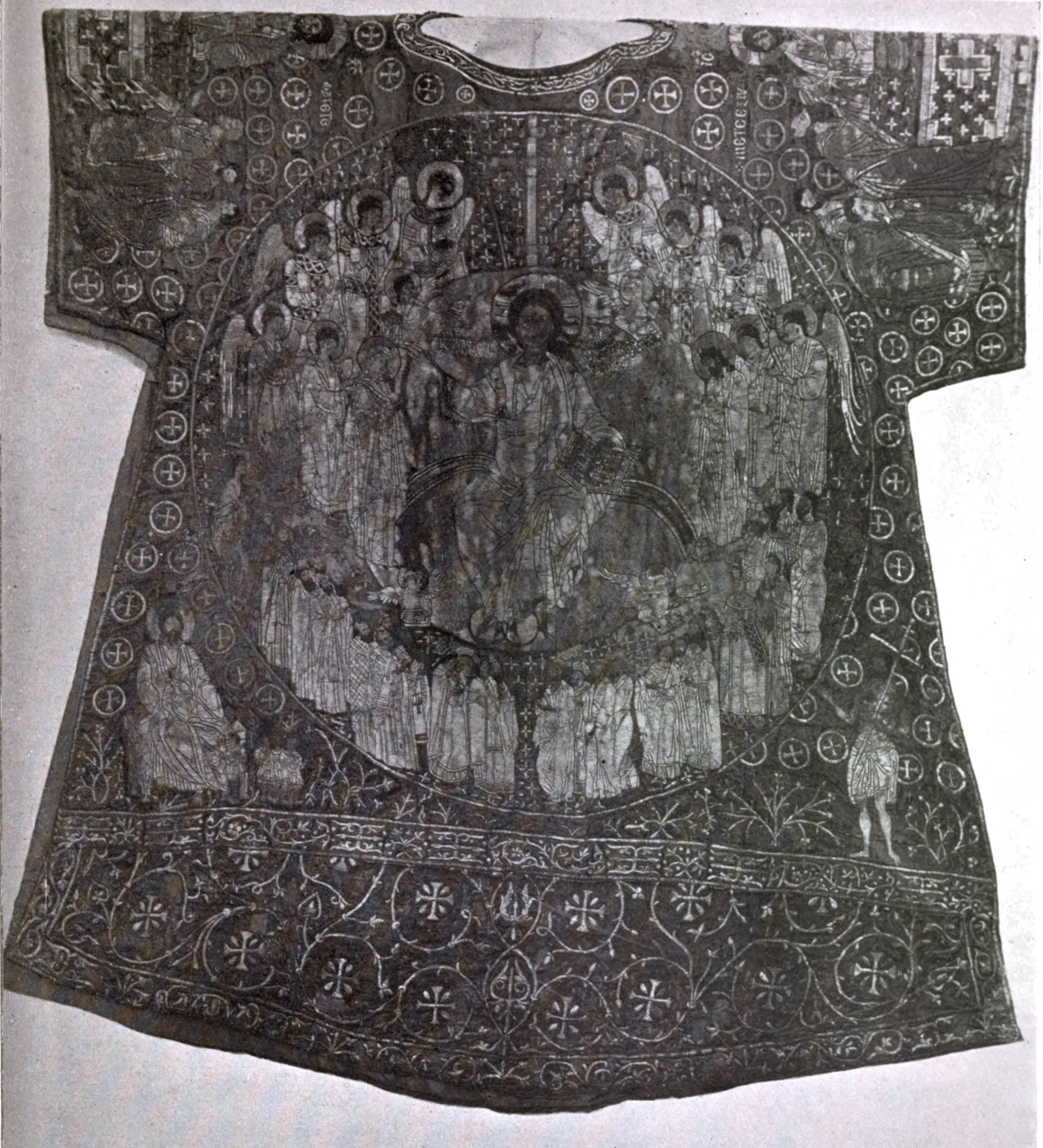 Frontispiece from How to See the Vatican by Douglas Sladen, published: London, 1914. Original caption: "The Dalmatic of Charlemagne in the Sacristy of St. Peter's."